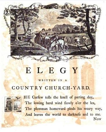 Reprint of the 1753 edition, from google books. Cropped and modified.